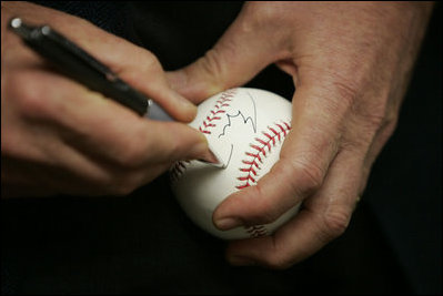 President George W. Bush autographs baseballs Thursday night, April 14, 2005, before his appearance before an opening-night Washington Nationals crowd at RFK Stadium. The President was on hand to throw out the first pitch during a ceremony marking the return of major league baseball to the Capitol.